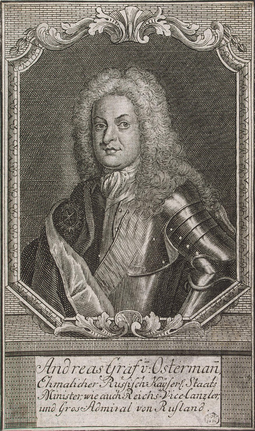 Count Andrei Ivanovich Osterman (1687-1747)